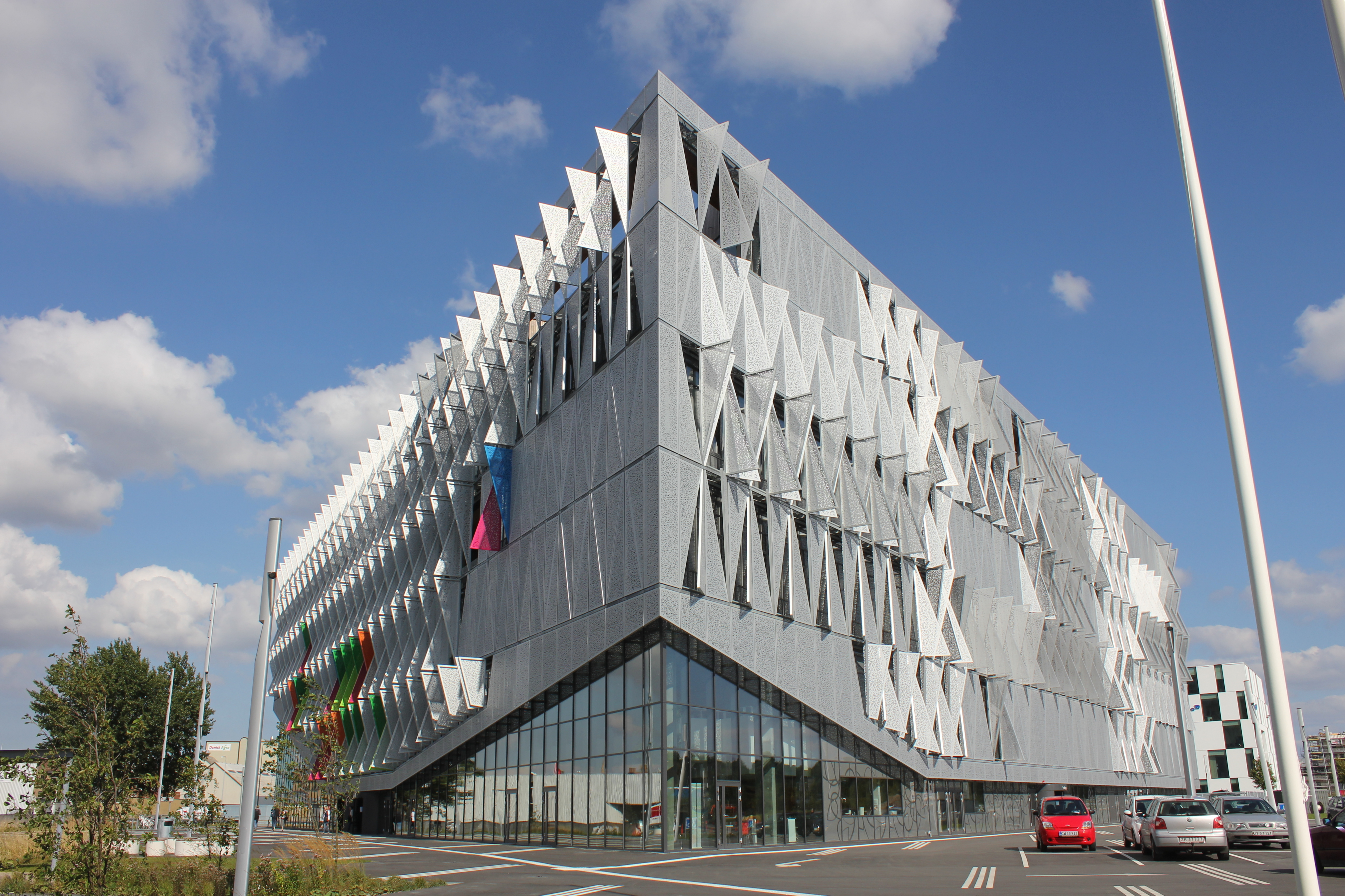 Campus Kolding is a part of Syddansk Universitet (University of Southern Denmark) and is made in 2012-2014. The building has a triangular shape and is designed by Henning Larsen Architects. Students started using it 1. september 2014.There are approximately 3000 sudents and 200 employees.